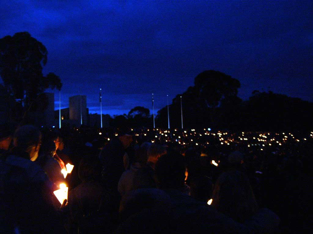 Australian War Memorial, Canberra, en:25 April en:2005 - ANZAC Dawn Service - 90th anniversary of ANZAC Day. The lightening dawn, with some 20,000 people gathered at the forecourt of the AWM. The trumpeter is seen on the rampart at the front of the AWM having just played reveille. Bishop Tom Frame, Anglican Bishop to the Australian Defence Force, gave the address, and talked about remembrance.